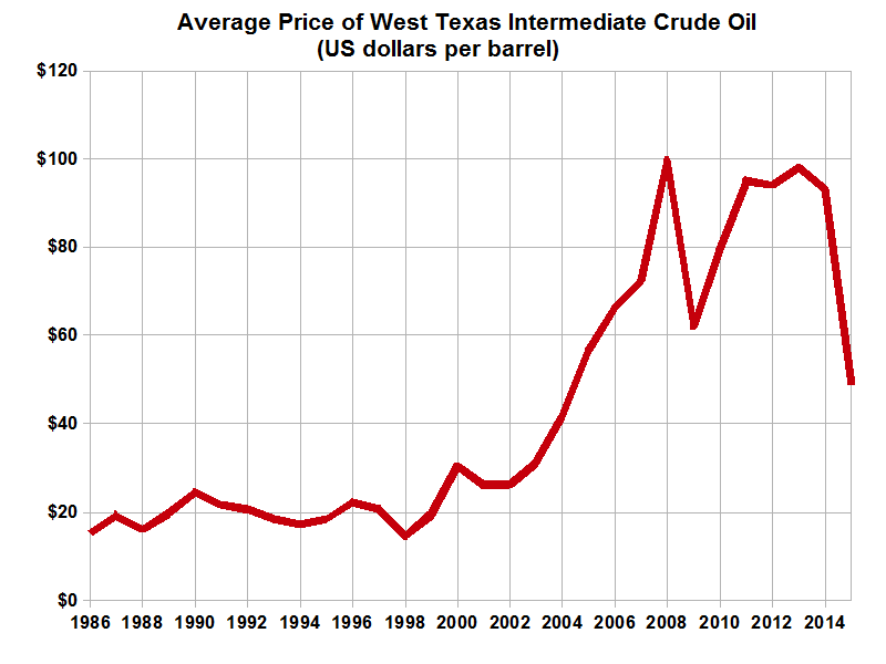 Average Price of West Texas Intermediate Crude Oil FOB Cushing Oklahoma. Data from the US Energy Information Agency.